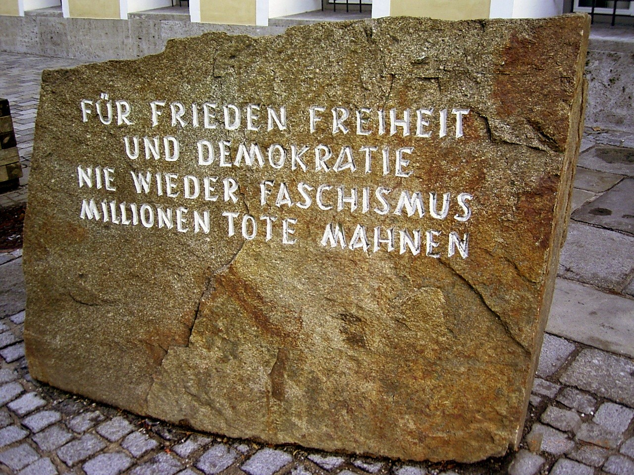 A memorial stone at the site of the birth of Adolf Hitler. The inscription reads: "For peace freedom / and democracy / never again fascism / millions of dead remind [us]" The stone is from the quarry at the Mauthausen concentration camp.